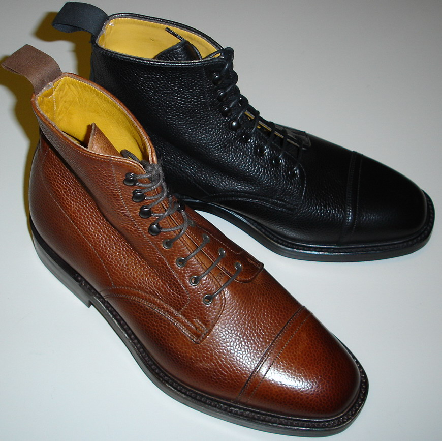 Derbyboot Grenson Huntingdon